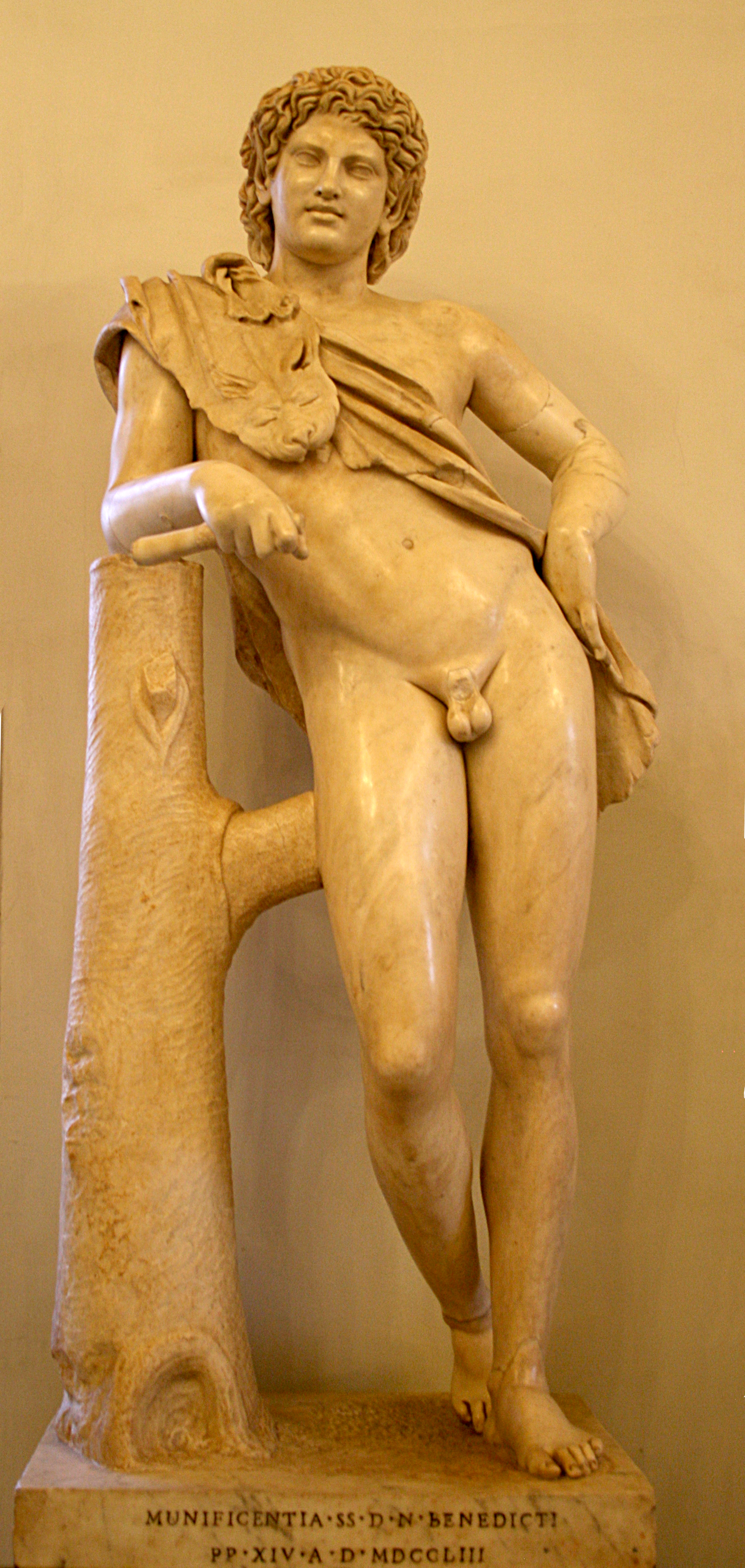 Satyr leaning on a tree trunk. Roman copy of the Imperial era after a Greek original of the IVth century b.C. of the second classicism restored in 1999.